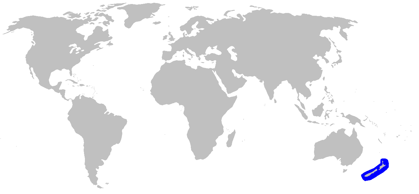 Distribution map for Mustelus lenticulatus